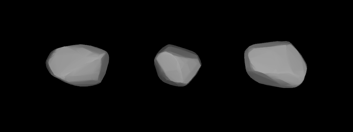 A three-dimensional model of 516 Amherstia that was computed using light curve inversion techniques.